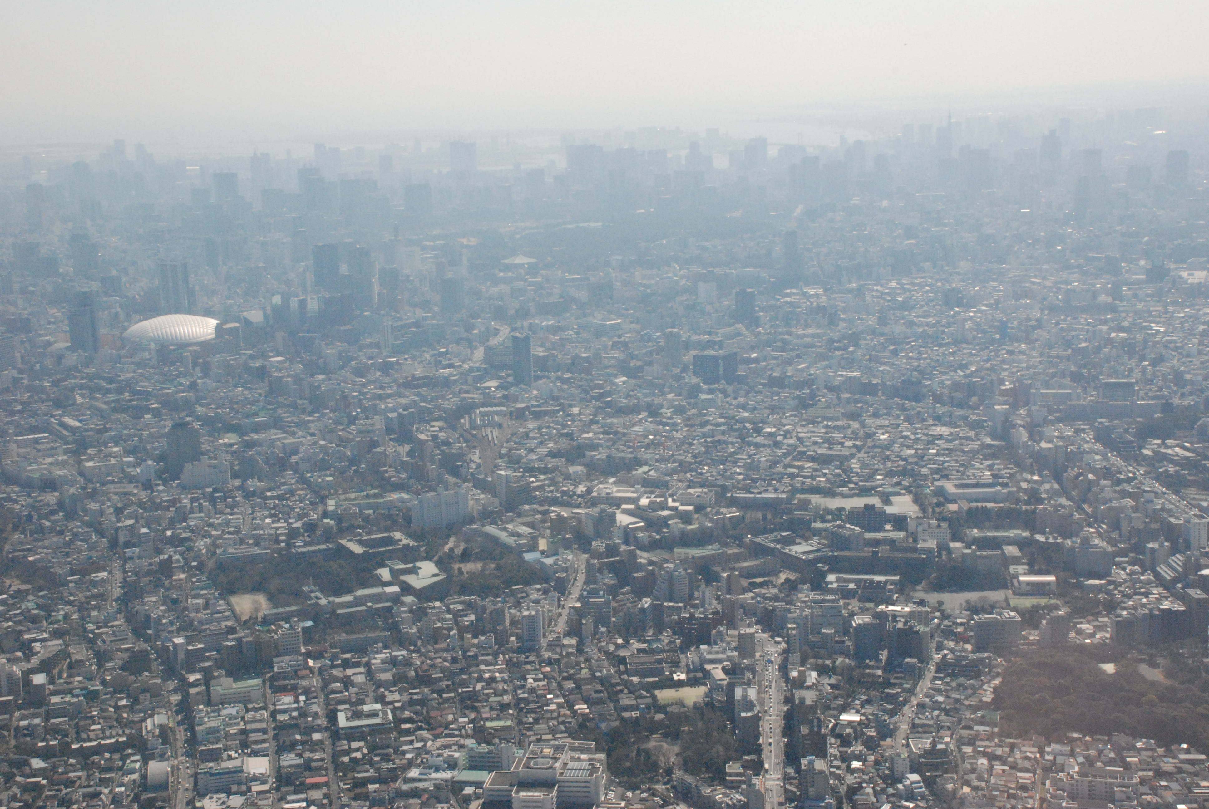 The city centre is visible in the distance. The Tokyo dome is visible on the left, and the rainbow bridge and the Tokyo tower can be seen on the right.